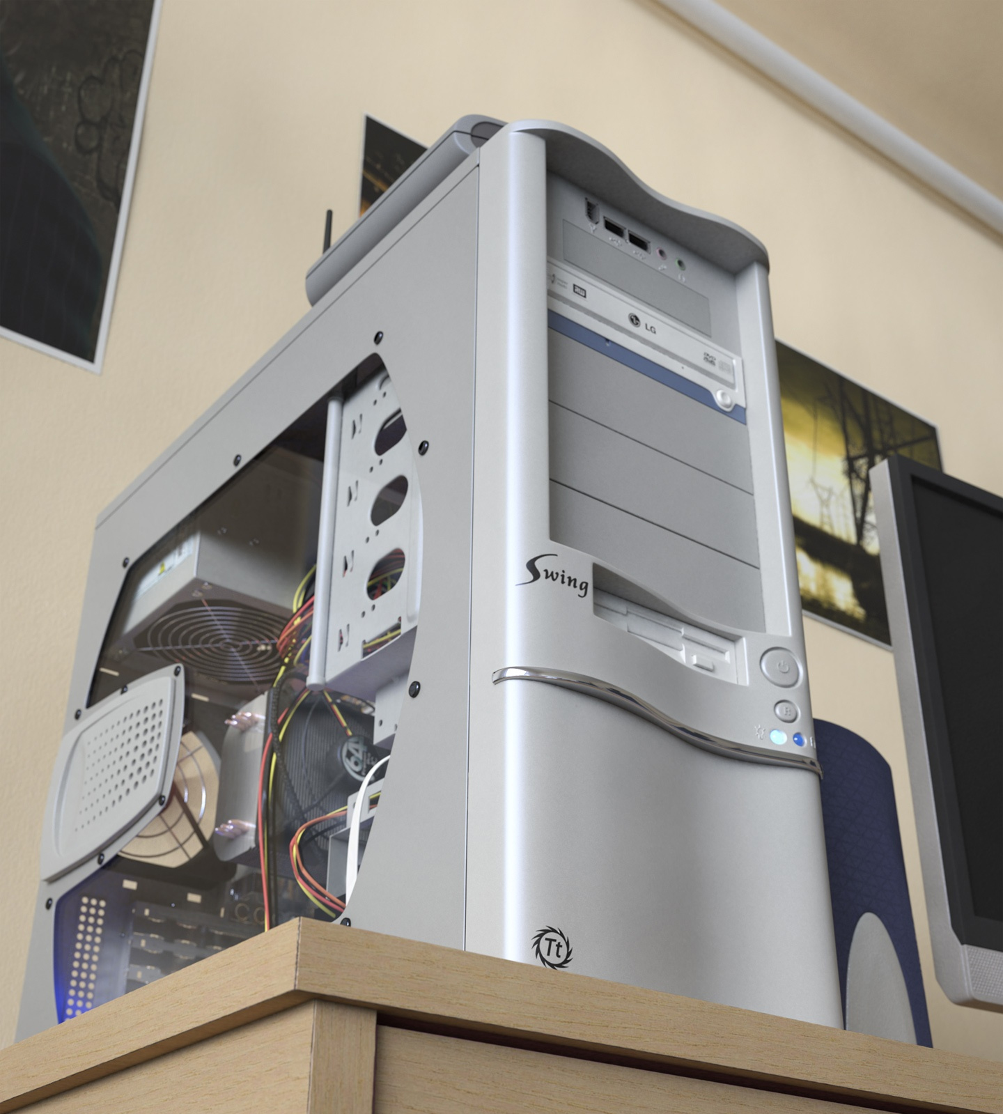 A 3D artwork depicting a computer case done in 3ds MAX and V-Ray using Irradiance caching.